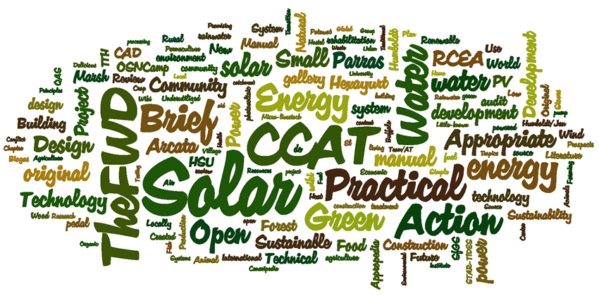 Appropedia wordle constructed from the 5,000 most popular content page names.